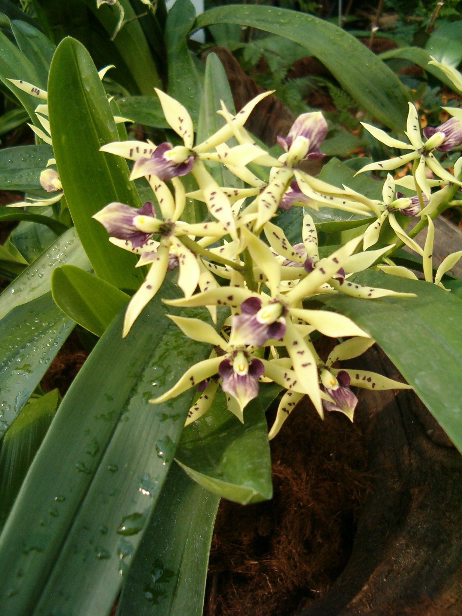 Prosthechea cochleata, Habitus and Flowers Location: Botanical Gardens Berlin - Orchid Exhibition